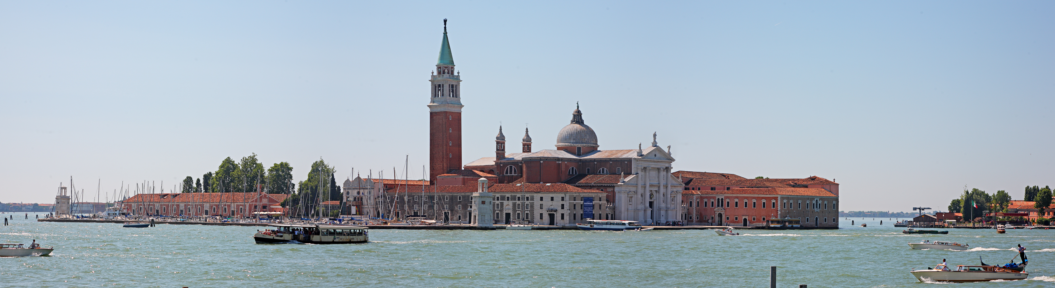 San Giorgio Maggiore (Venice) island, Venice, Italy. A four image stitch.